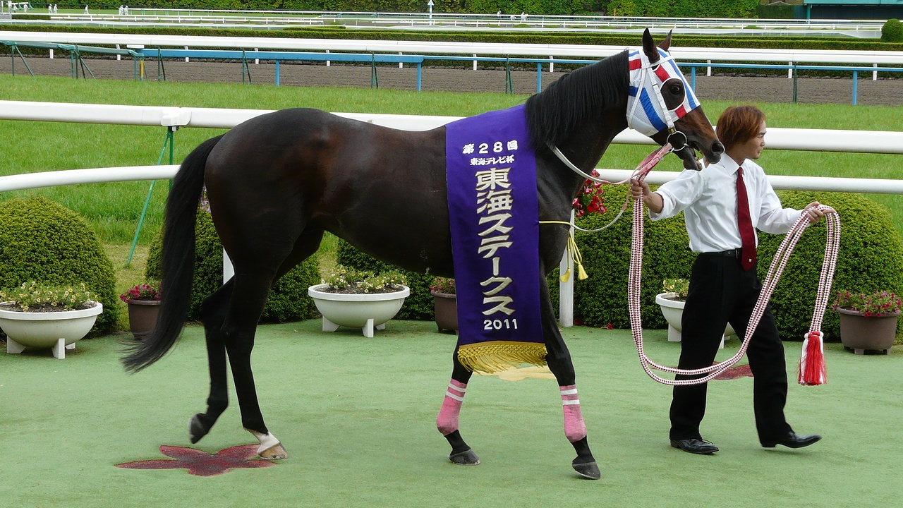 Wonder-Acute20110522